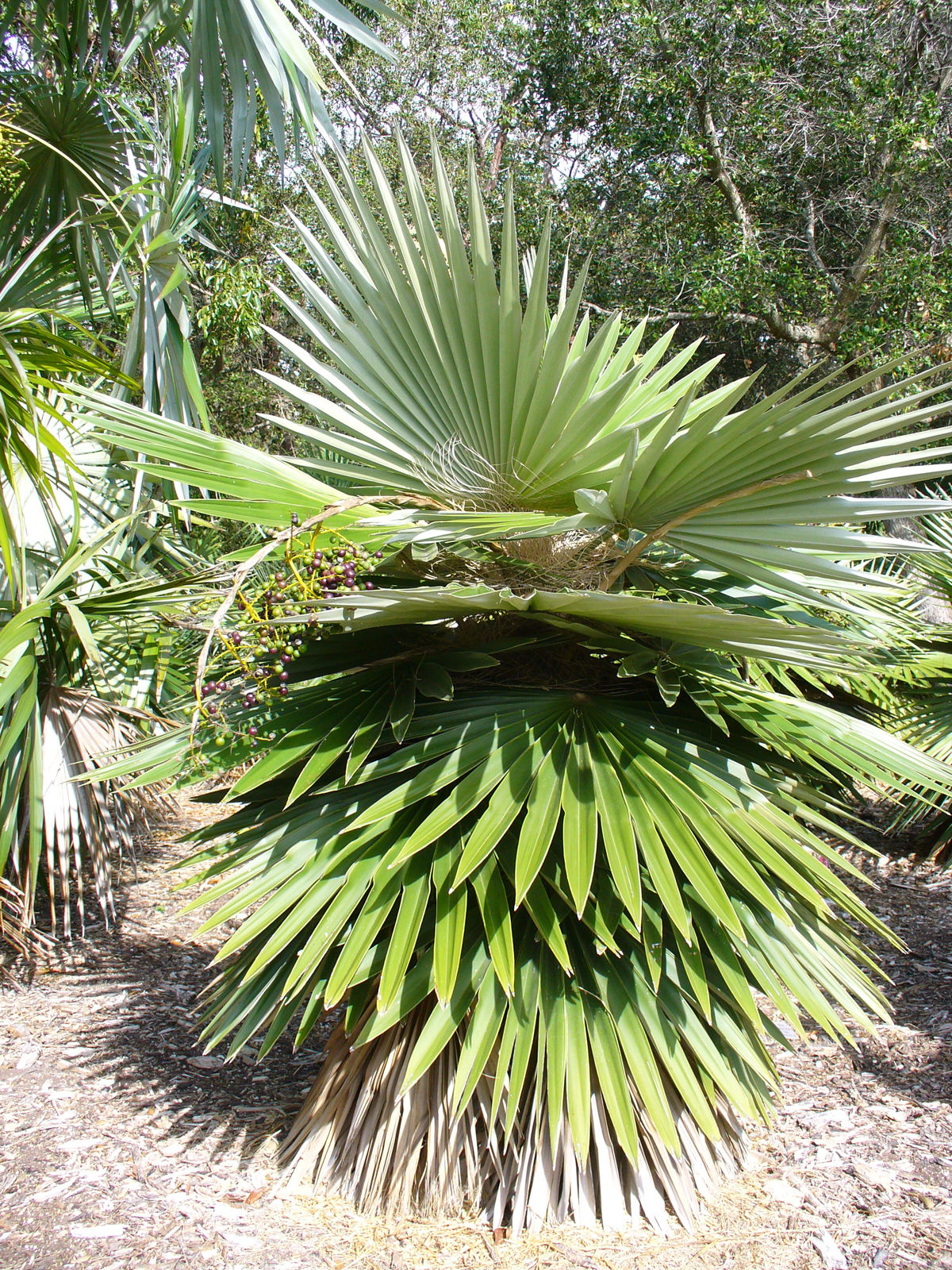 Coccothrinax borhidiana, Montgomery Botanical Center, Miami, FL, USA